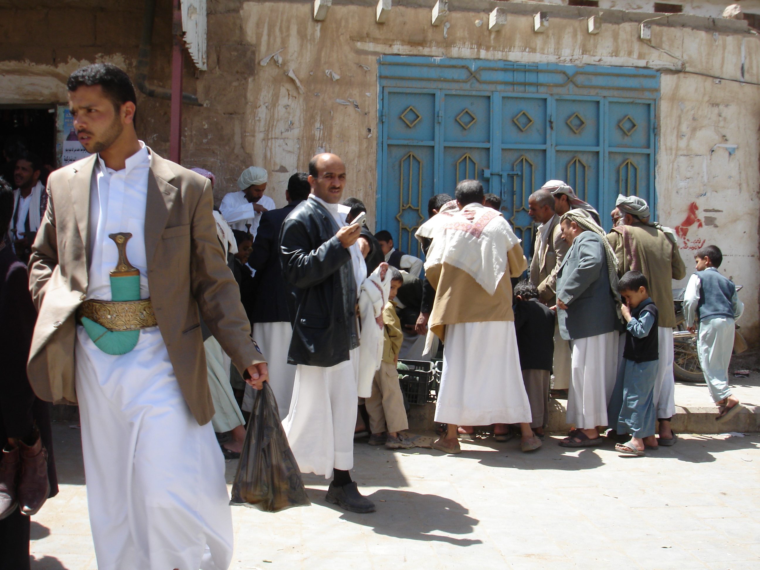 Market Scene in Sana'a